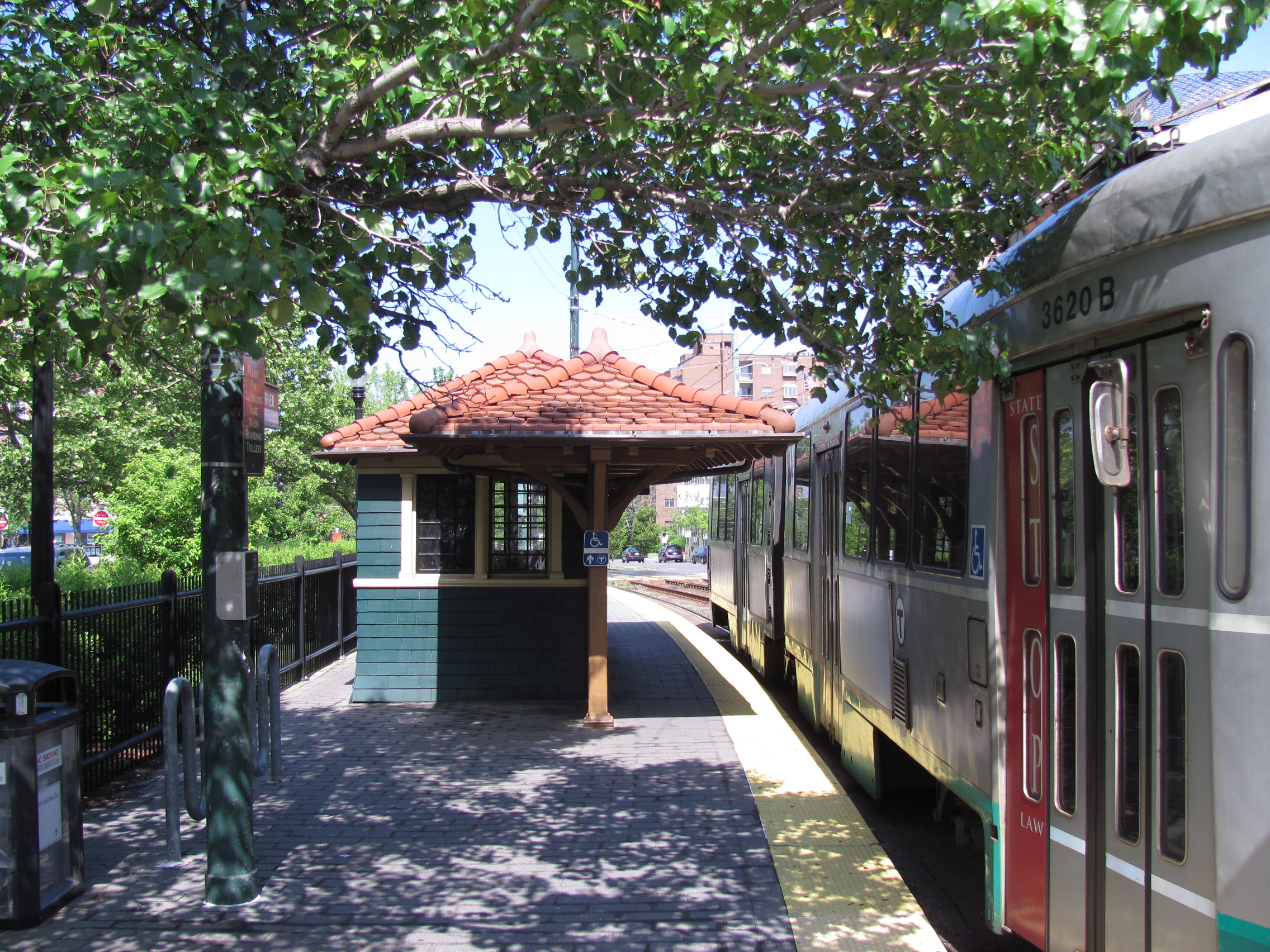 Coolidge Corner MBTA station, Coolidge Corner Massachusetts